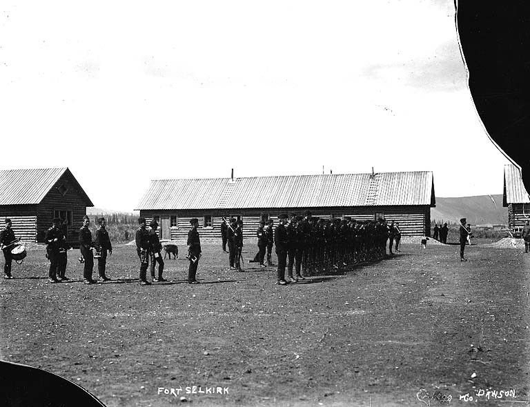 Caption on image: "Fort Selkirk" Subjects (LCTGM): Forts & fortifications--Yukon; Log buildings--Yukon--Fort Selkirk Subjects (LCSH): Fort Selkirk (Yukon); Canada. Army--Drill and tactics